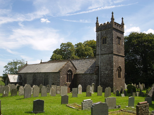 St Peter's Church, Thornbury Restored in 1876, but "a good deal of the early medieval church remains" (Cherry & Pevsner). The unbuttressed tower looks unusual. The church was closed when the photo was taken because of falling plaster.